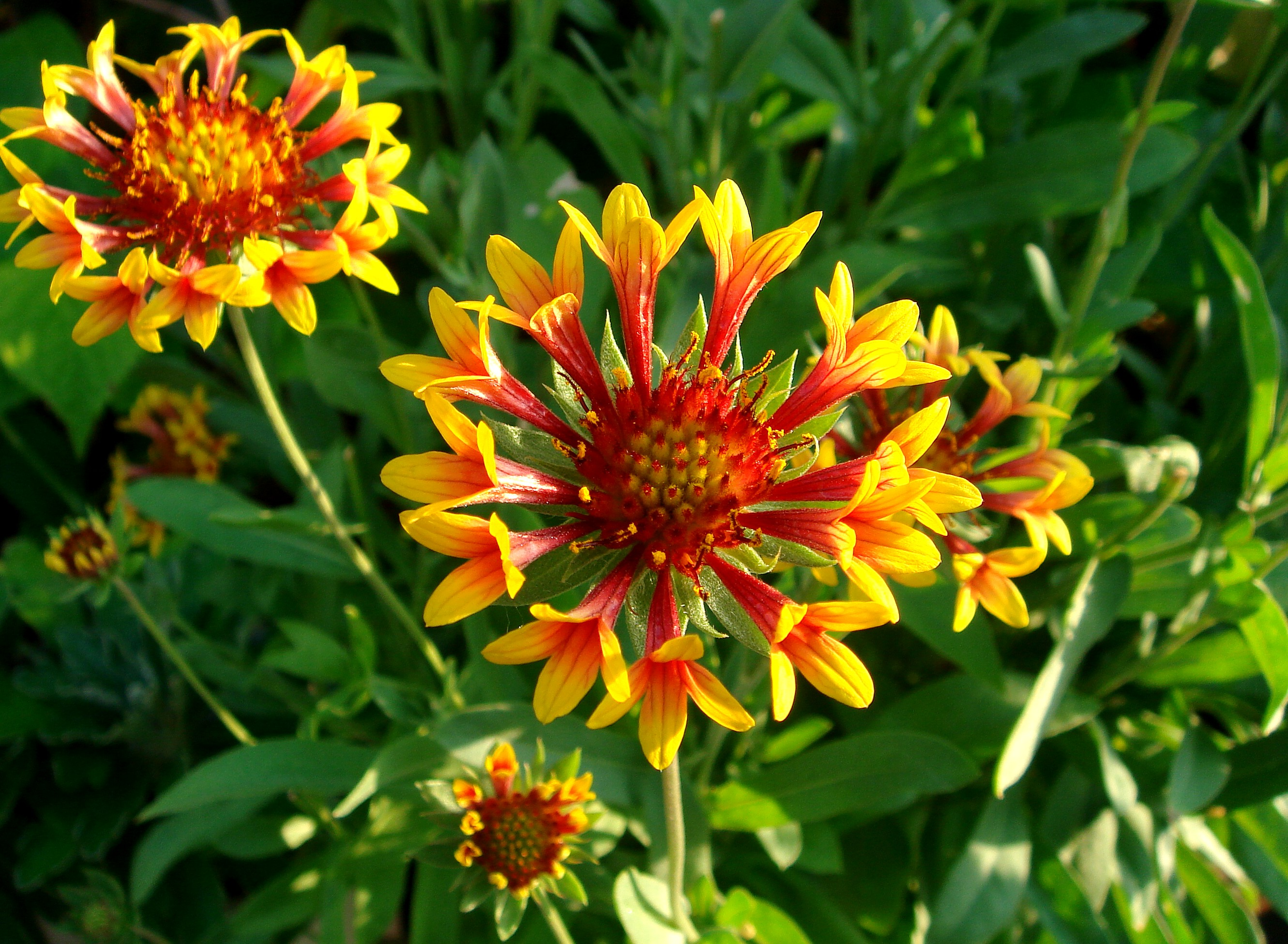 Flowers of Gaillardia × grandiflora (probably a named cultivar, such as 'Oranges and Lemons', 'Fanfare' or 'Frenzy'?)